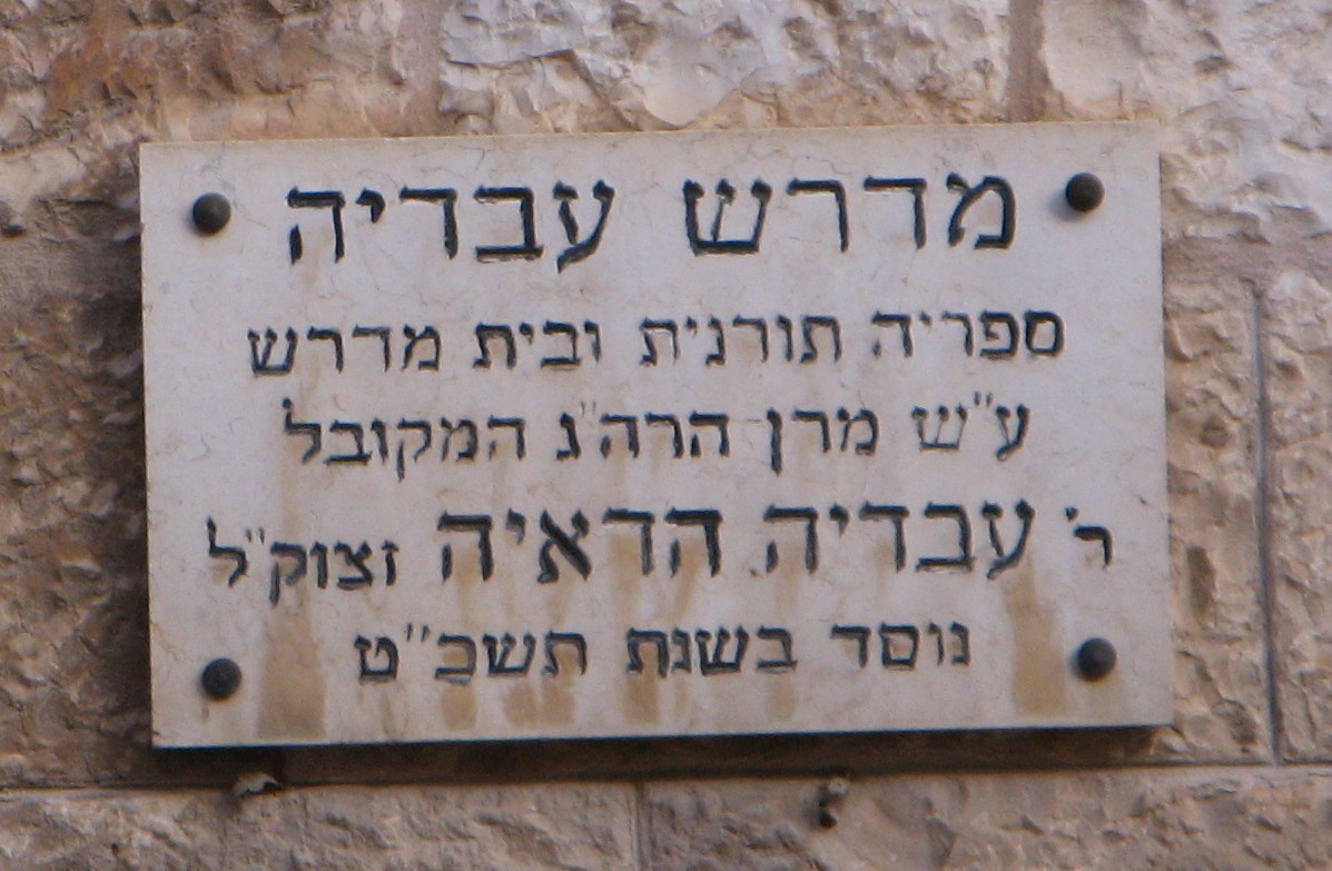 Sign on the Beit el Mkubalim Yeshiva in North Jerusalem, Rashi St 24, designating Rav Ovadiah Hadaya